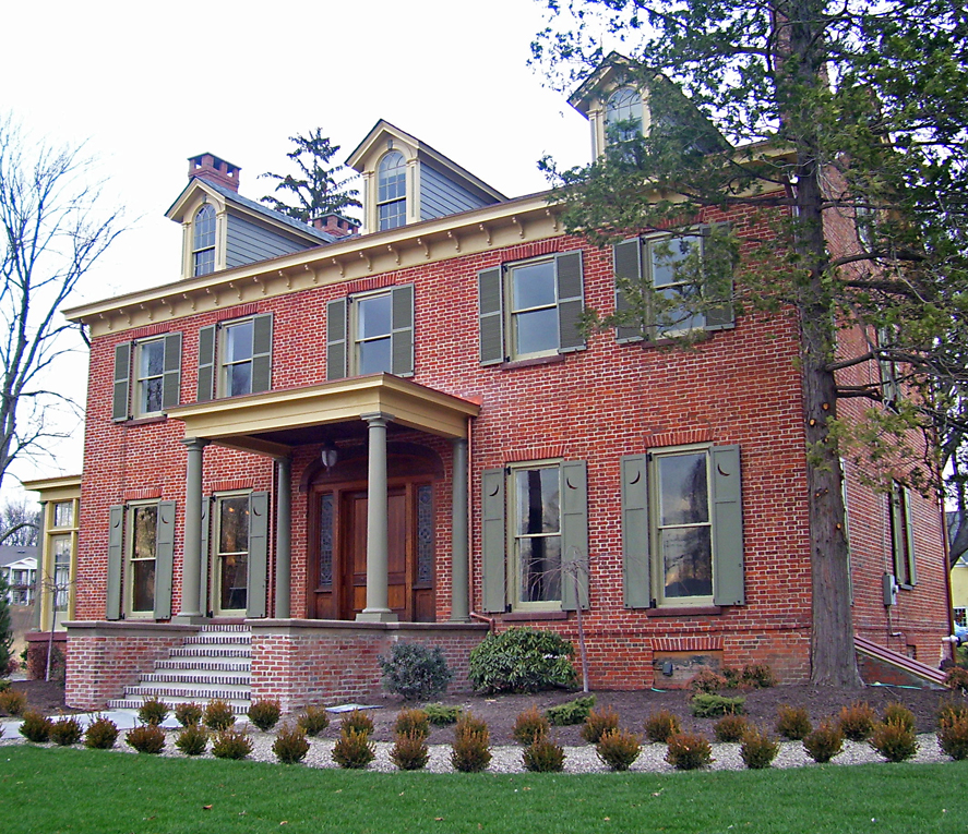 Patchett House Photographed by Daniel Case 2006-12-04